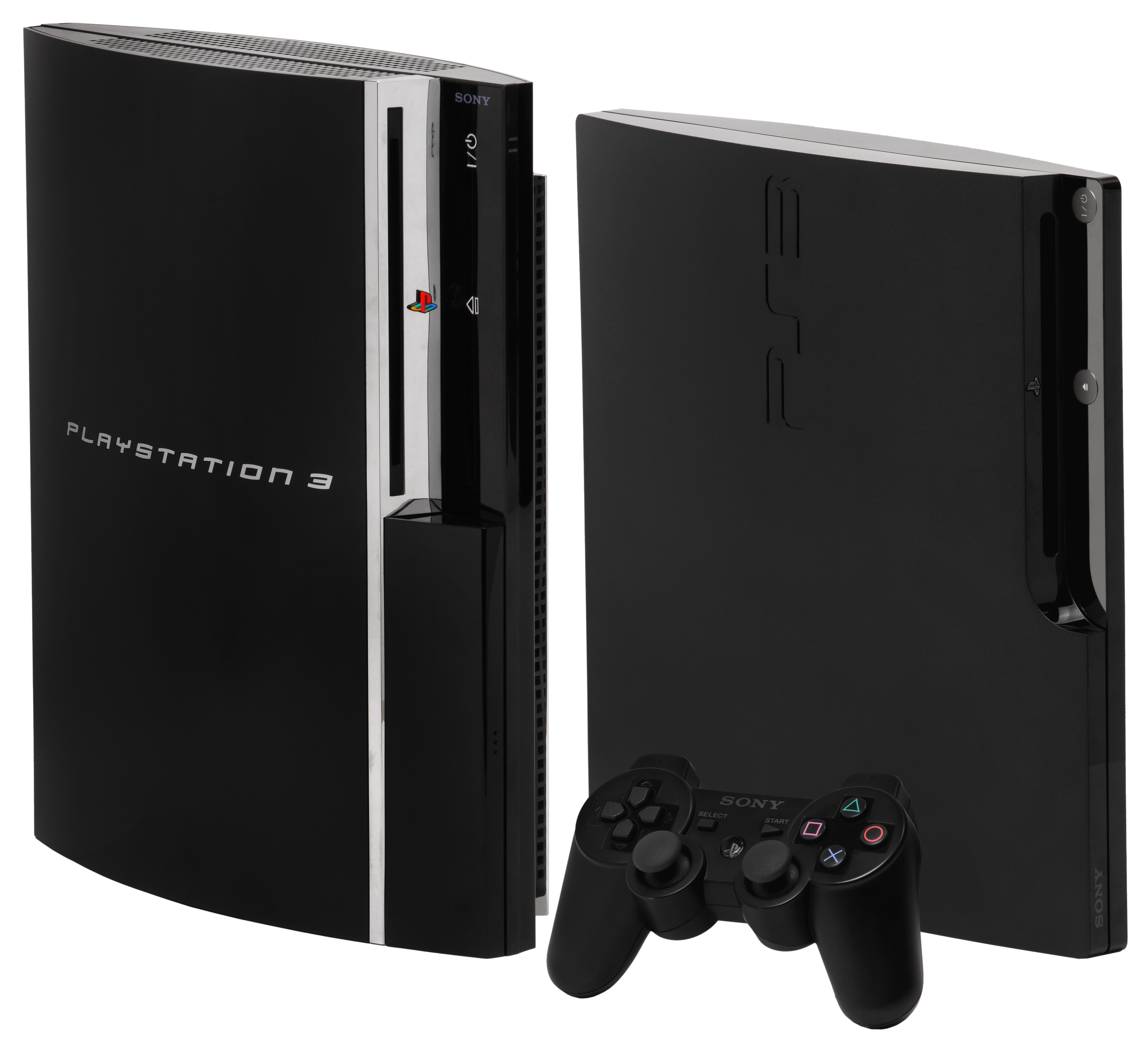 On the left, an original "fat" PlayStation 3 (PS3) console. This is a 60 GB model with backwards compatibility and memory card reader. On the right the 120 GB PS3 "Slim" model. Shown with a DualShock3.This is the JPG version.